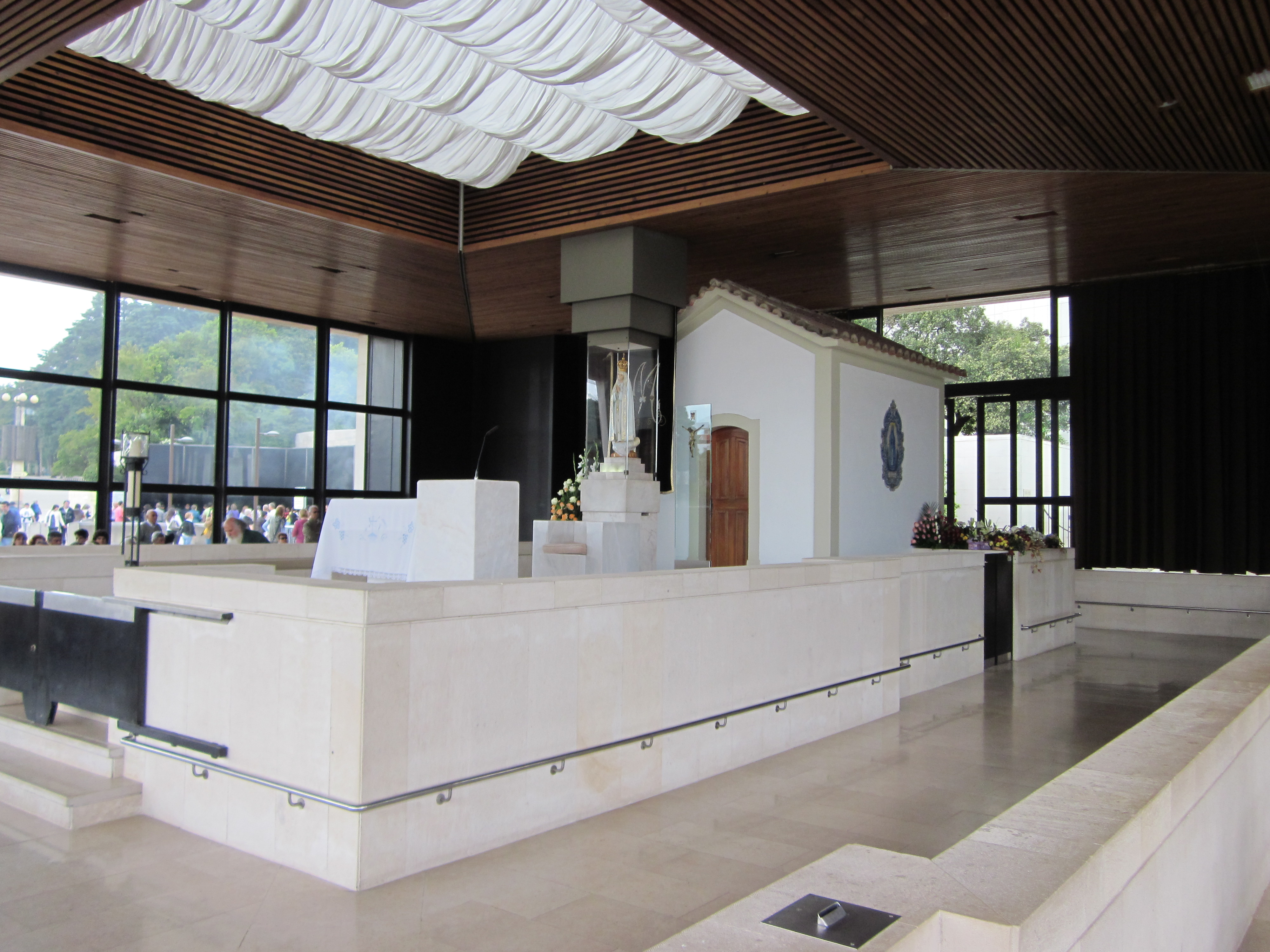 The Chapel of Apparitions in Fatima, Ourém, Portugal.